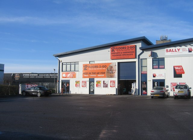 Floors-2-Go warehouse Light industry in Knights Park industrial estate.